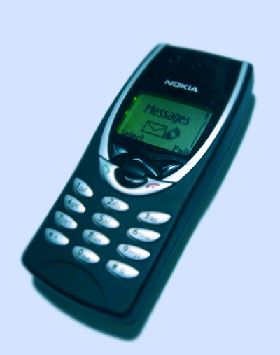 Description: The Nokia 8210 (displaying the 'messages' option on the main menu)